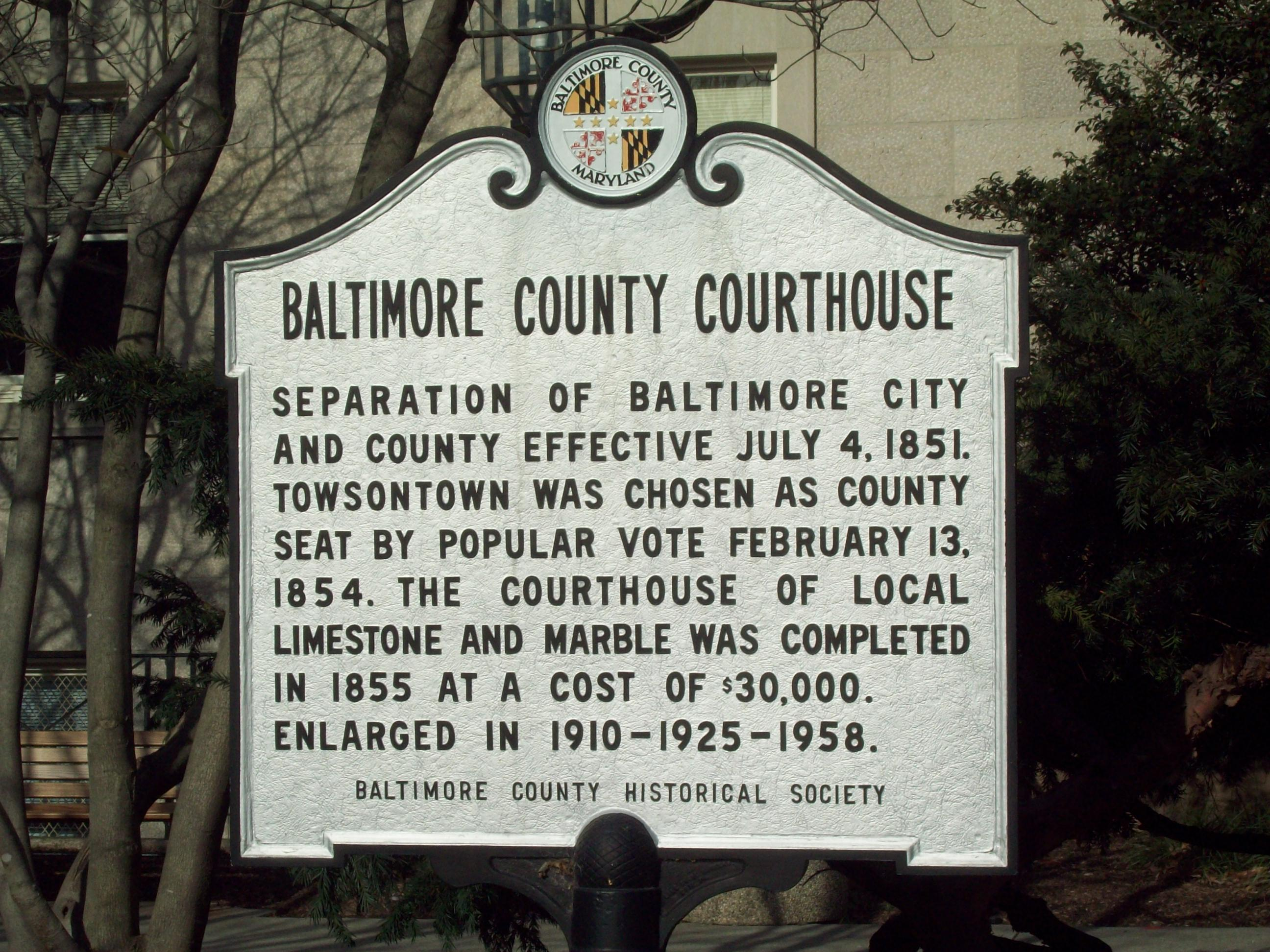 Baltimore County Courthouse Marker, December 2009